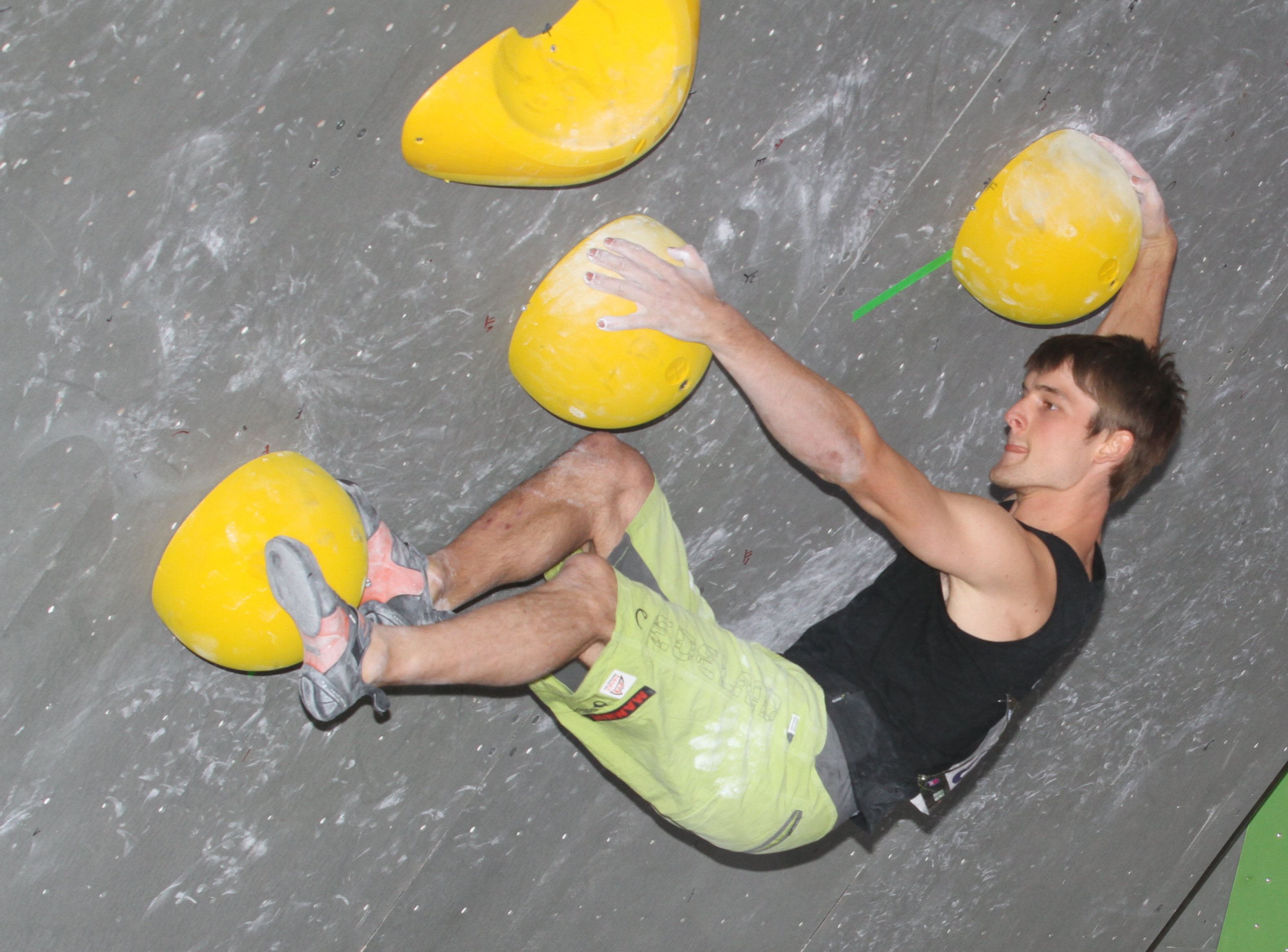 IFSC Boulder Worldcup, Munich 2015. Jan Hojer (GER)